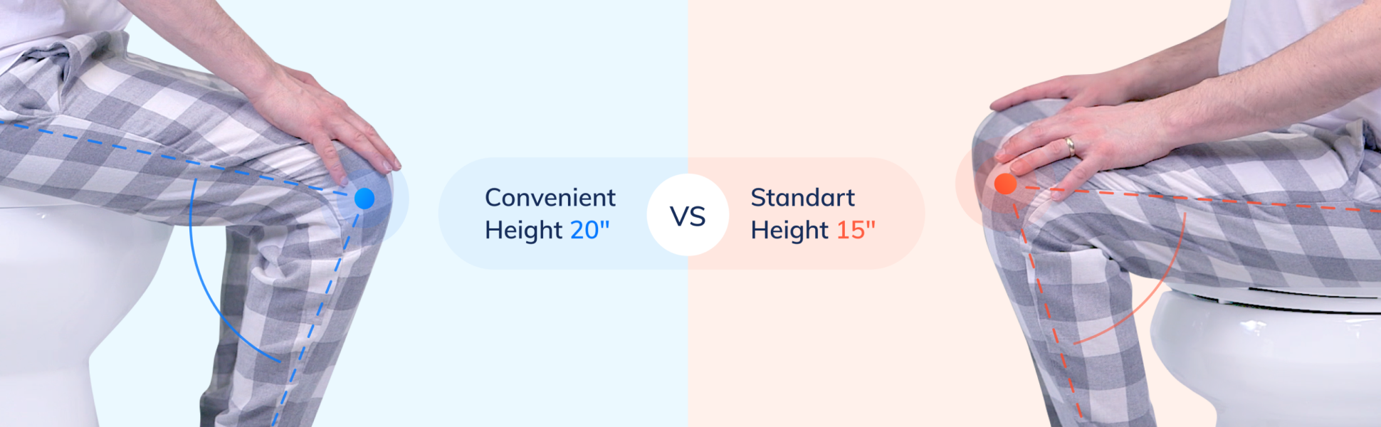 Convenient Height accessible toilet 20-21" bowl helps stand up and sit down is easier vs. Standard Height toilet.